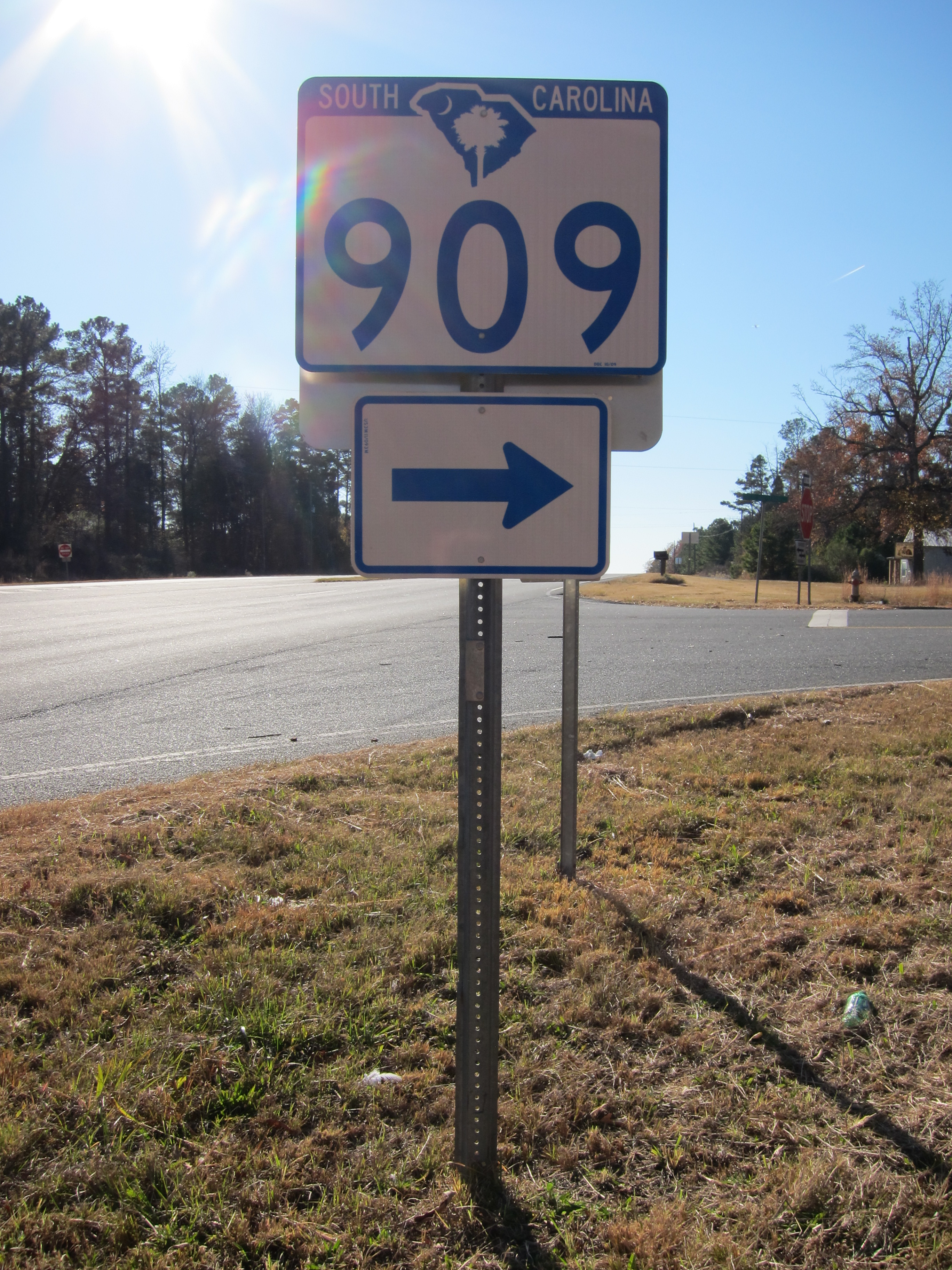 Turn-off onto SC 909 along Lancaster Highway, near Richburg.